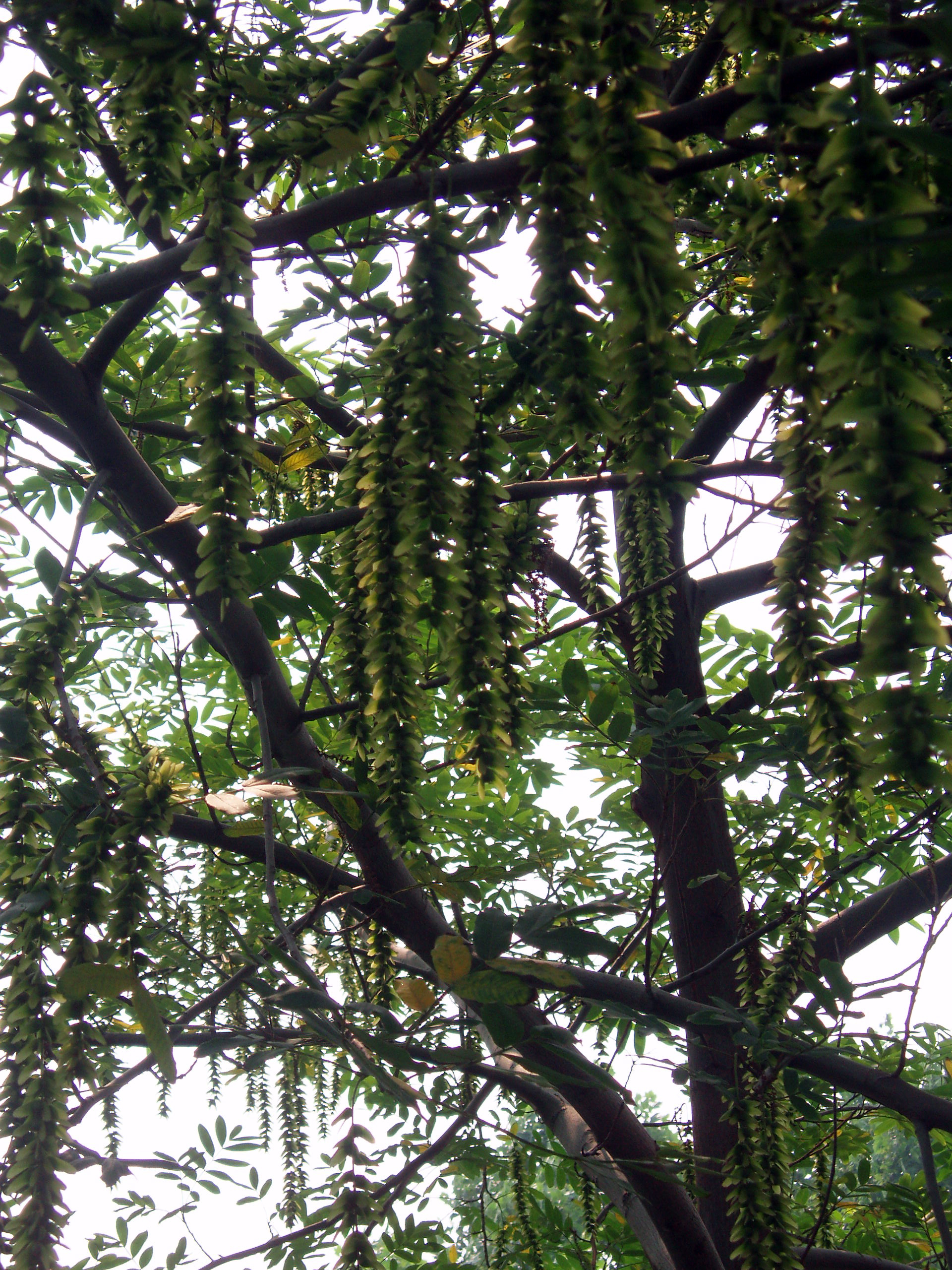 Chinese wingnut tree